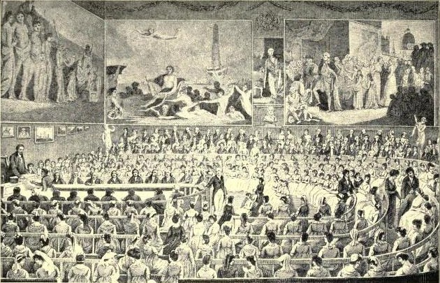 The Society of Arts distributing its awards - 18th c. (engraving)